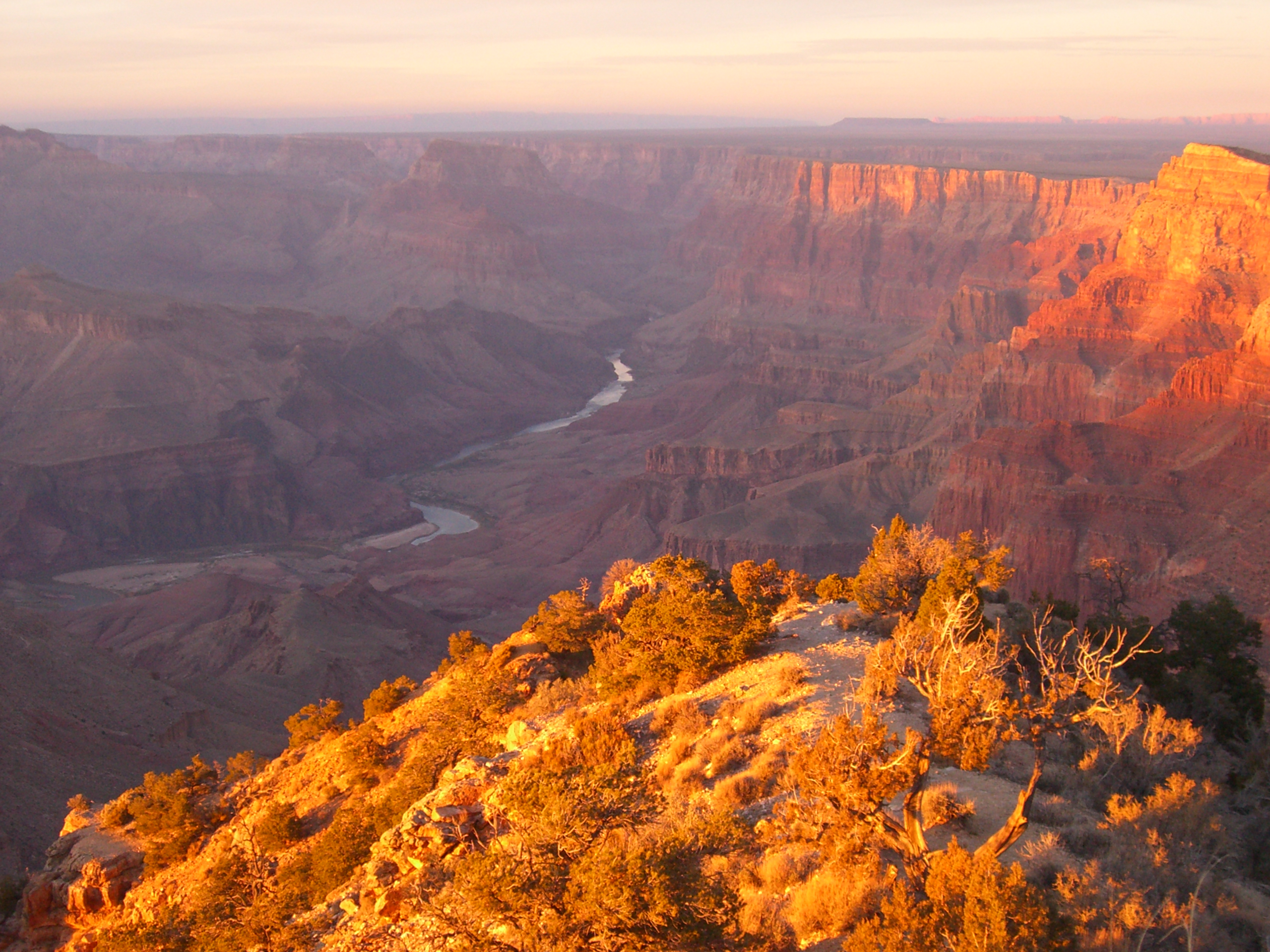 Grand Canyon, Arizona, USA